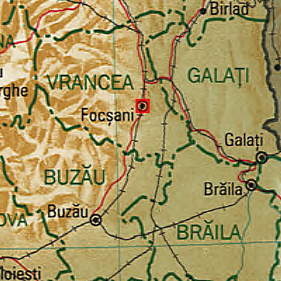 Map of Focșani Municipality, Romania.